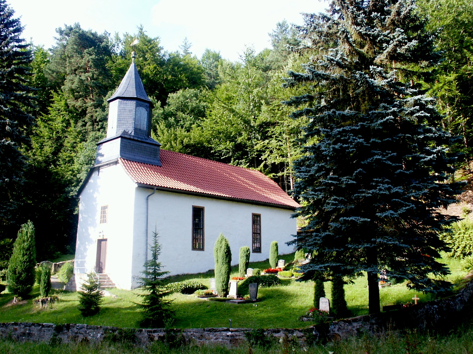 Church Weißbach